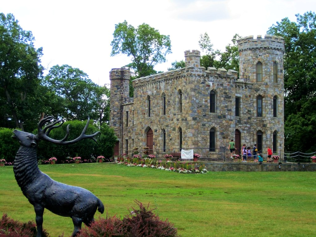 What a beautiful day. (Winnekenni Castle)